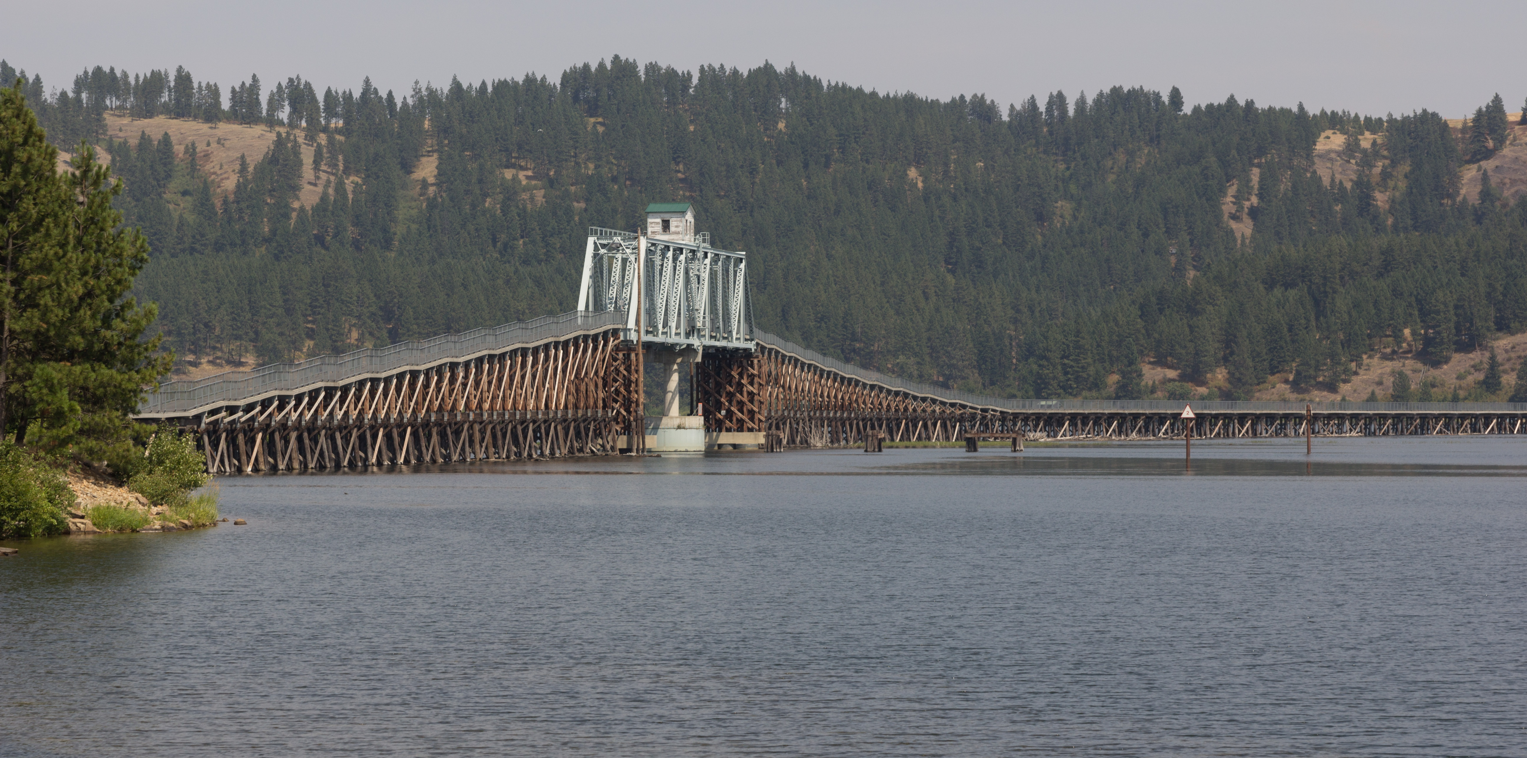 The Trail of the Coeur d'Alenes uses a 3,100-foot former railroad trestle to cross Lake Coeur d'Alene (also known as Lake Chatcolet in this section). It includes a 1921 swing bridge which was permanently raised up in elevation during the project to create a trail along the former railroad line, to keep a navigation channel open for taller boats while eliminating the need for the swing span ever to open. The original, flat level of the trestle can still be easily discerned in this photo, taken from the lake's west shore.